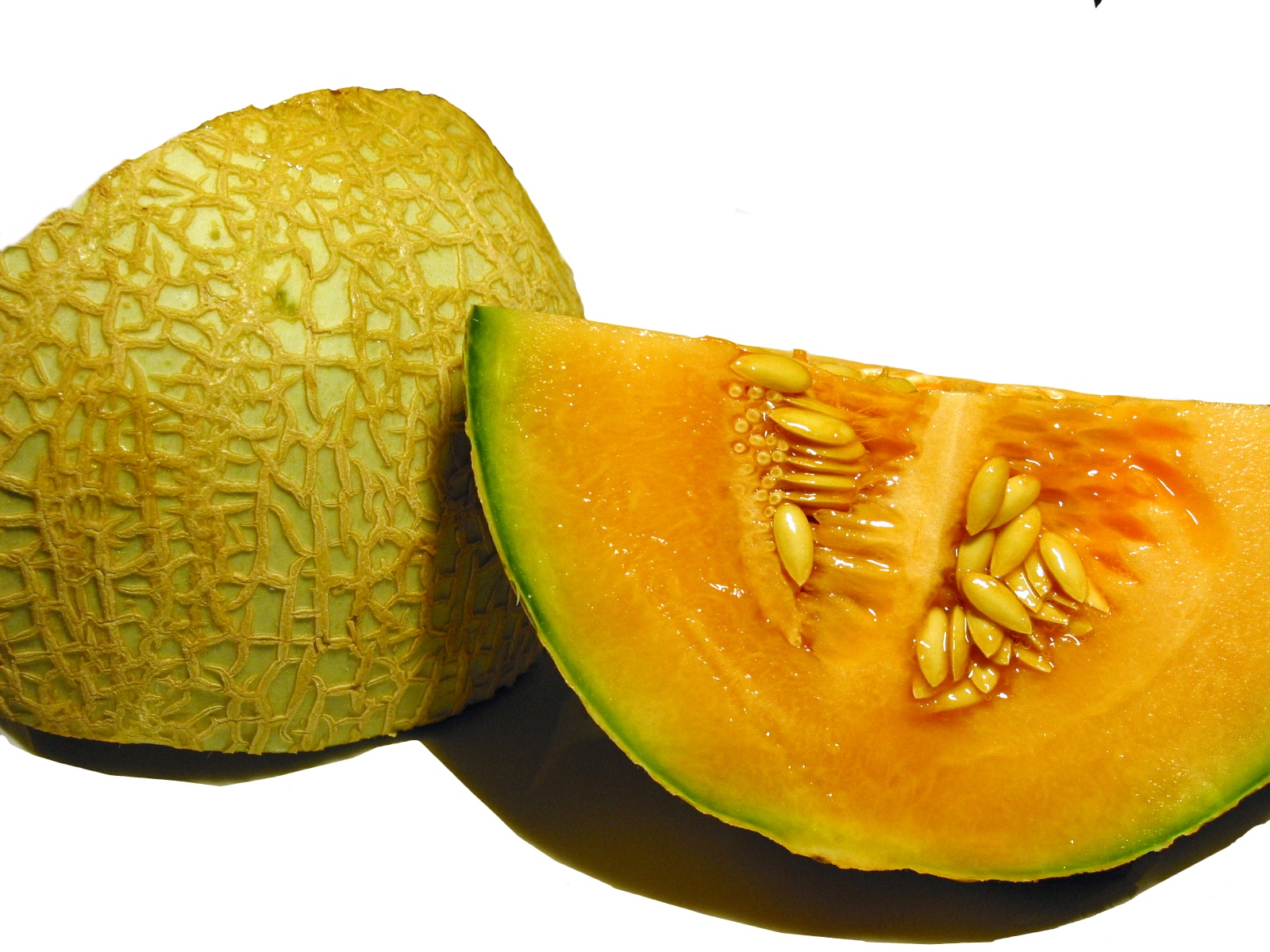 Melon